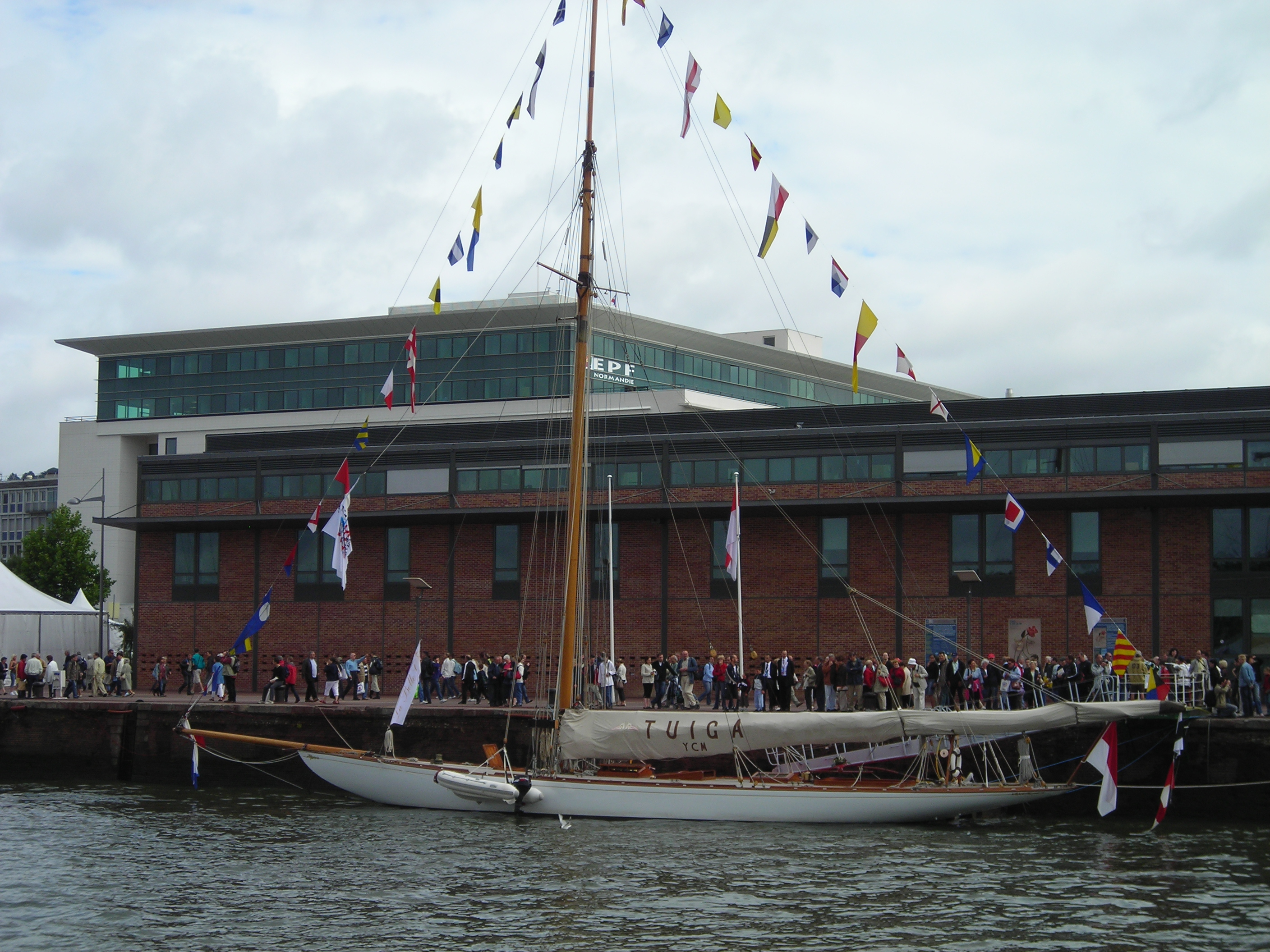 The sailing yacht Tuiga, (William Fife III design, 1909), 15mR and flagship of the Yacht Club de Monaco